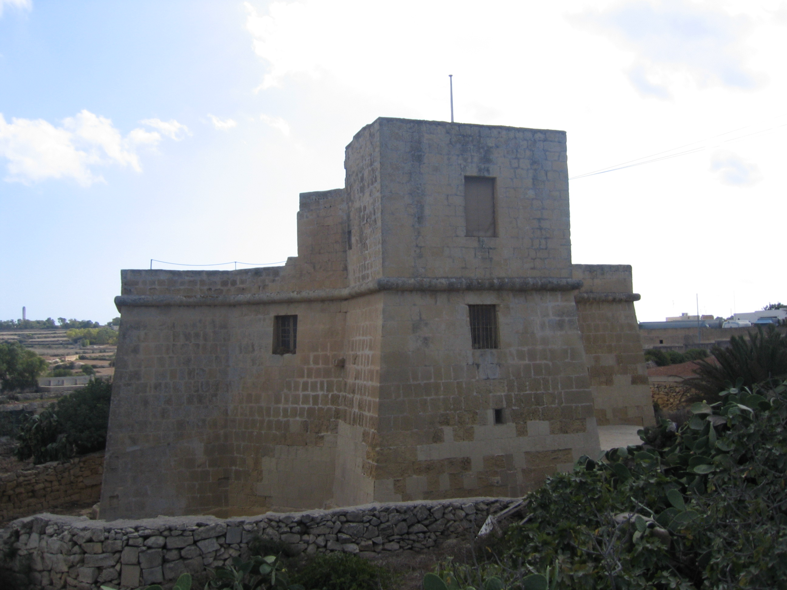 Mamo Tower, St Thomas Bay Malta. View from the north west Copyright H.J.Moyes Sept 2005 This media is about Maltese cultural property with inventory number 43.